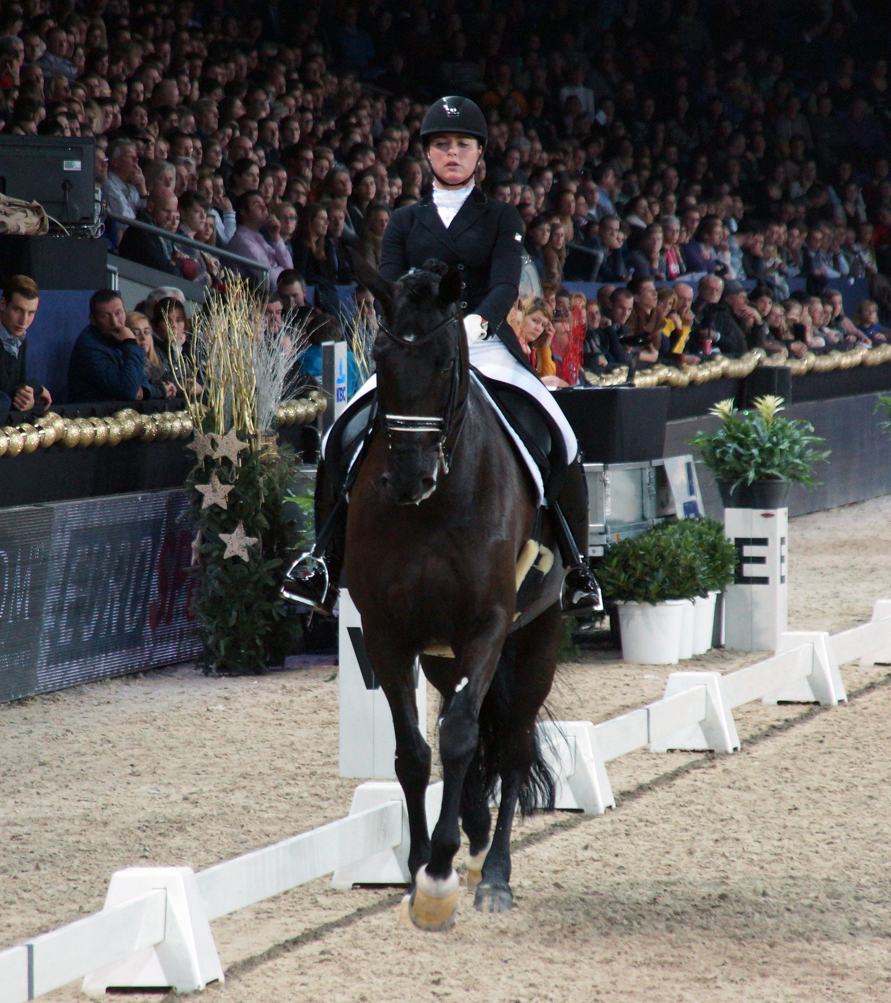 CDI 5* World Dressage Masters at 2013 Vlaanderens Kerstjumping - Jumping Mechelen: Danielle Heijkoop and Kingsley Siro at Grand Prix Freestyle